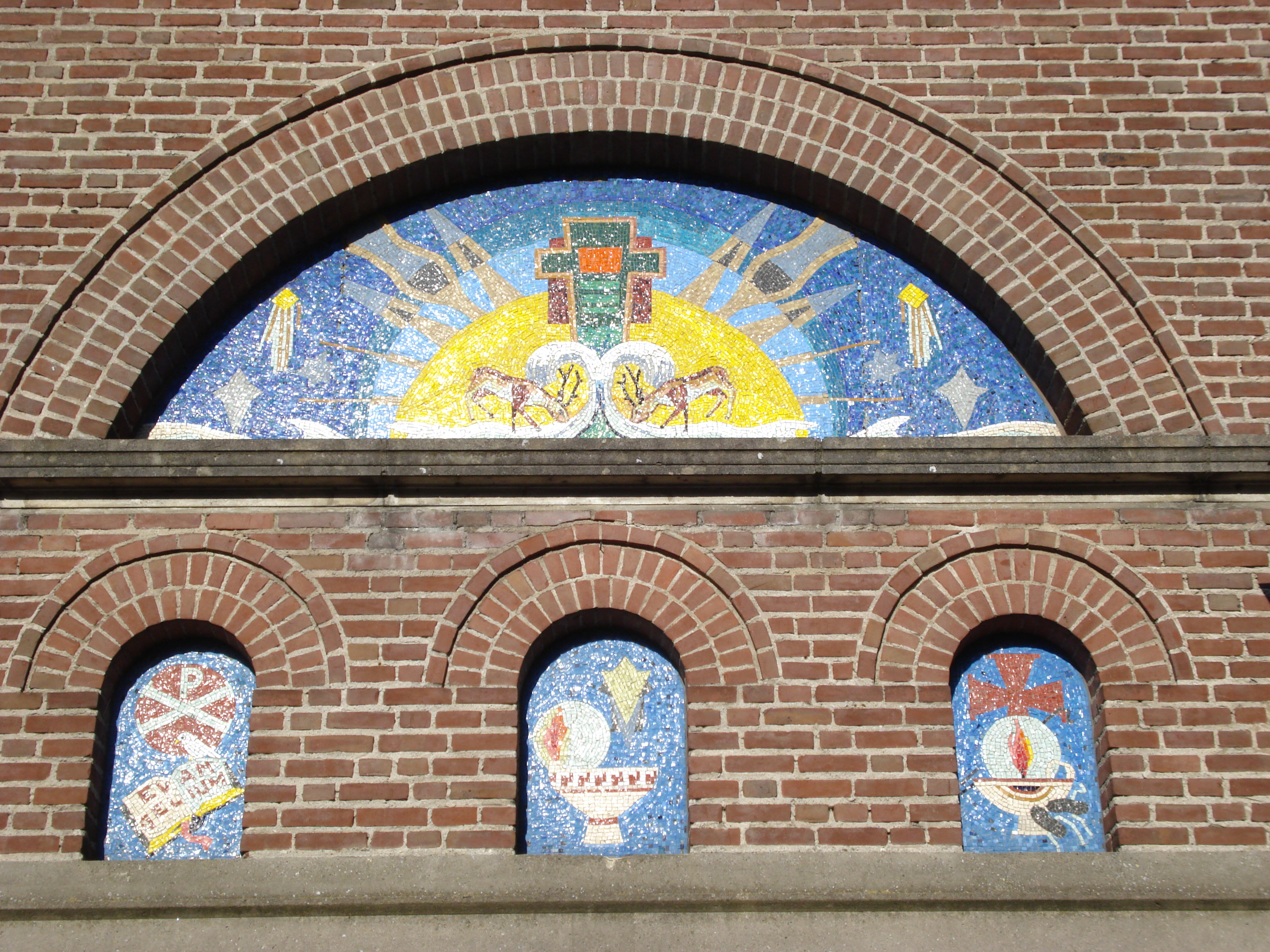 Babberich (Zevenaar, Gld, NL) church, mosaic tympanum